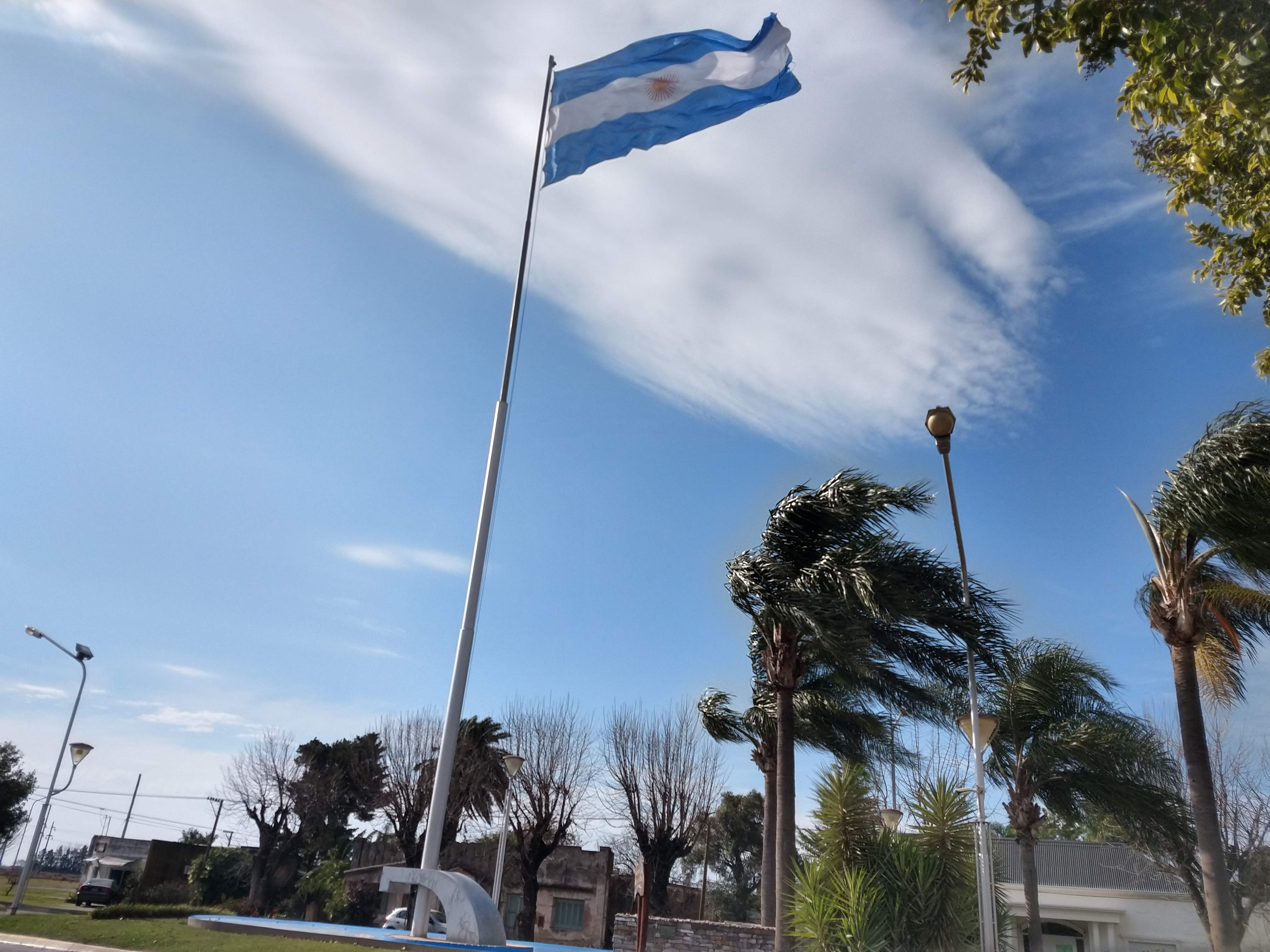 Argentine Flag in Humboldt Bicentenario Square (Santa Fe)